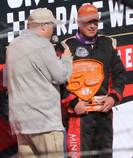 2019 Whelen All American Division I national champion Jacob Goede, several weeks after his championship, after winning the Big 8 Late Model Oktoberfest race at La Crosse Fairgrounds Speedway. He was also the Minnesota State champion, as shown on the bottom of his fireproof suit.